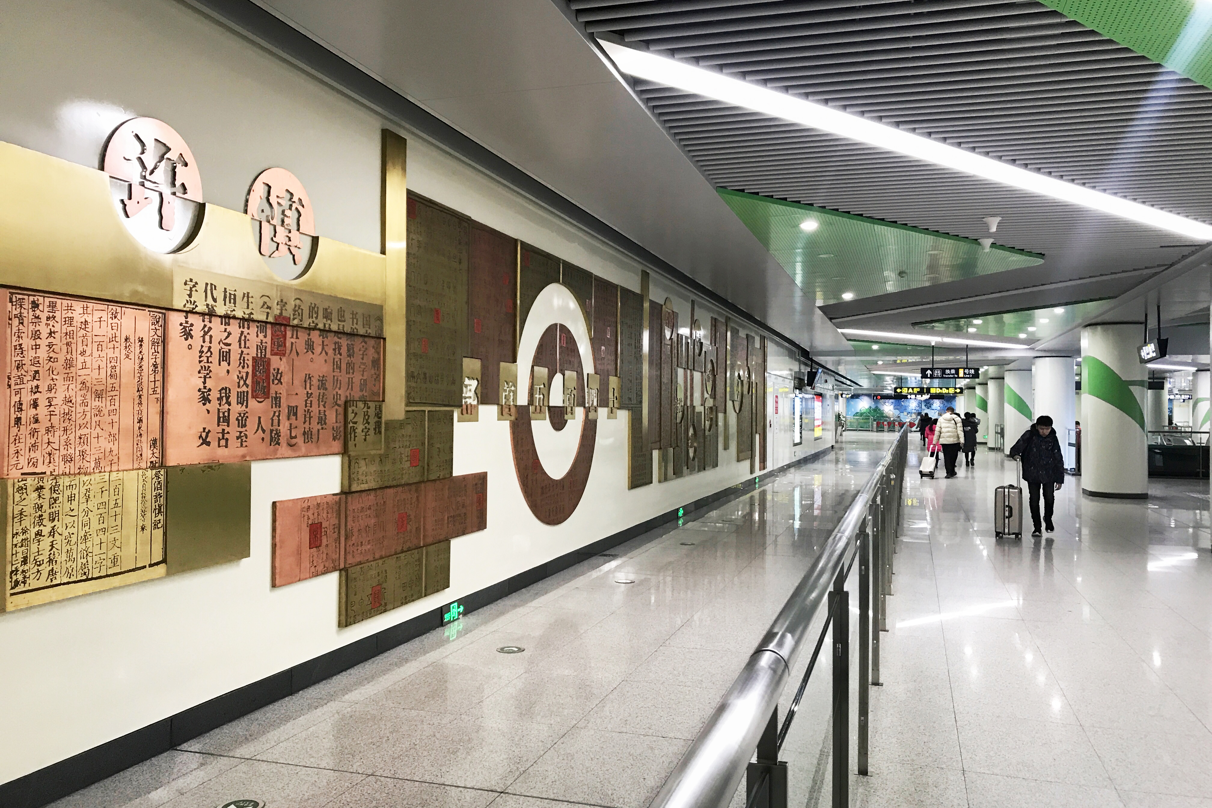 Artwork at Zhengzhou Metro Nanwulibao Station